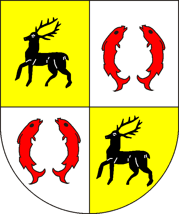 coats of arms of the counts of Stolberg (1429); 1,4: county of Stolberg; 2,3: county of Wernigerode